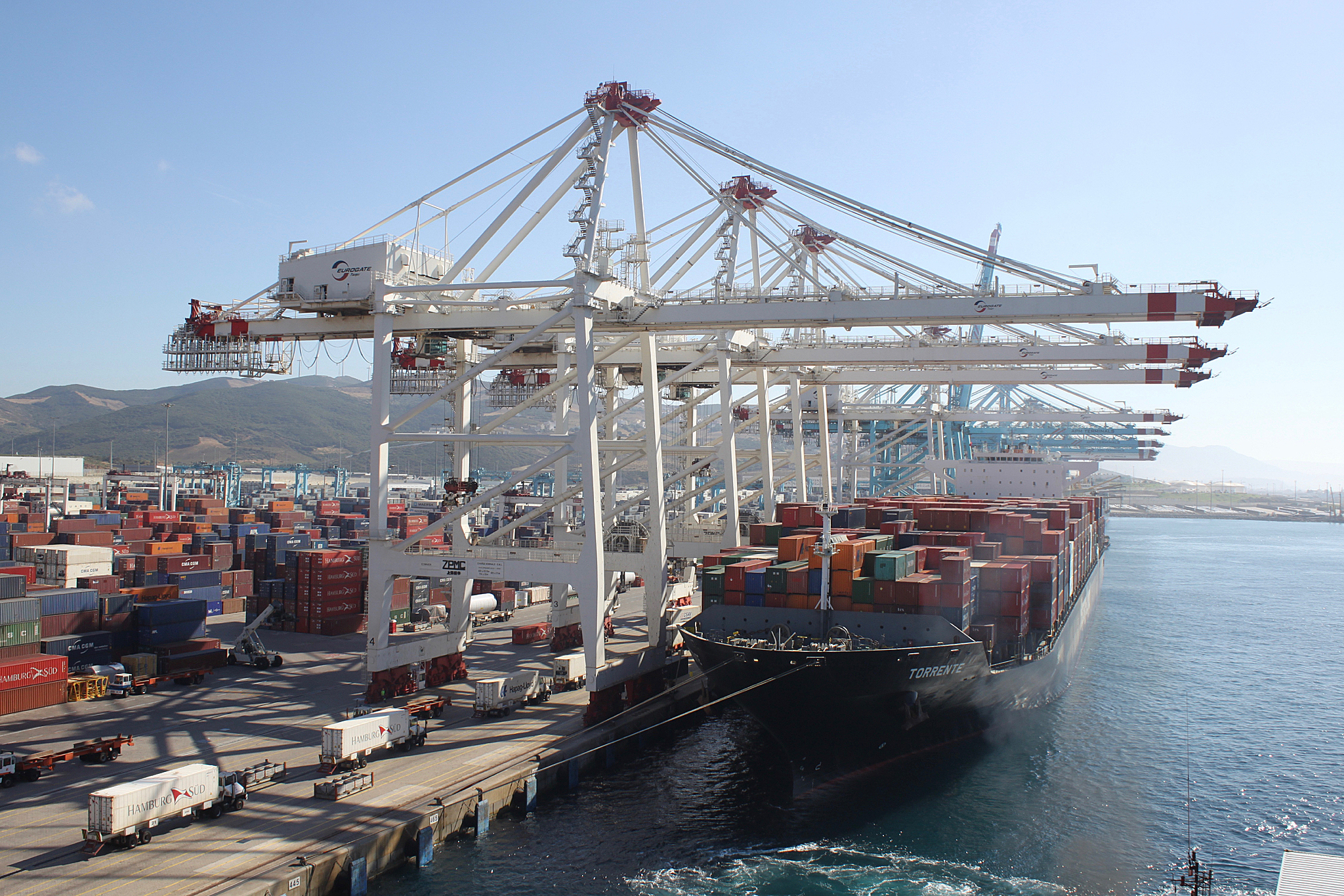 MV "Torrente" in Tanger Med.